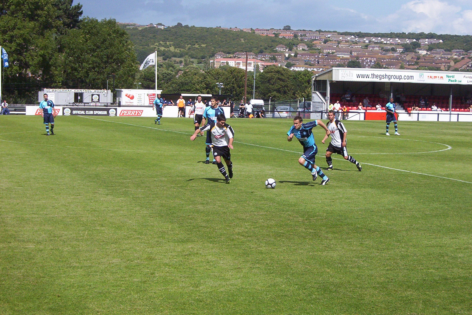 Dover Athletic vs Wycombe Wanderers in 2009, photo taken by myself